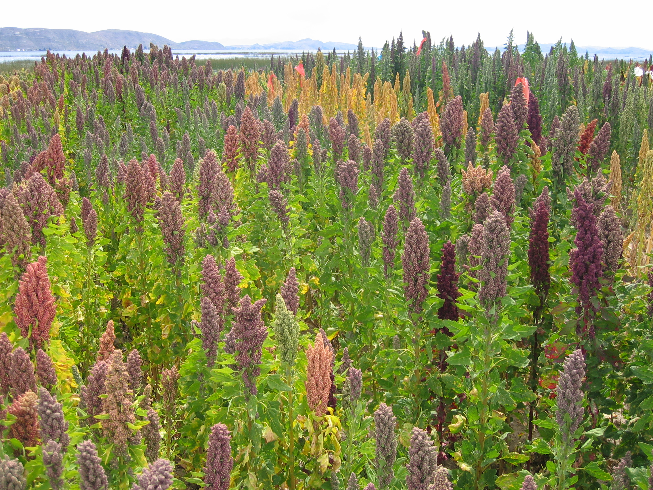 Landscape with quinoa (Chenopodium quinoa), Cachilaya, Bolivia, La Paz Department, Puerto Pérez Canton, Lake Titicaca seen in background.